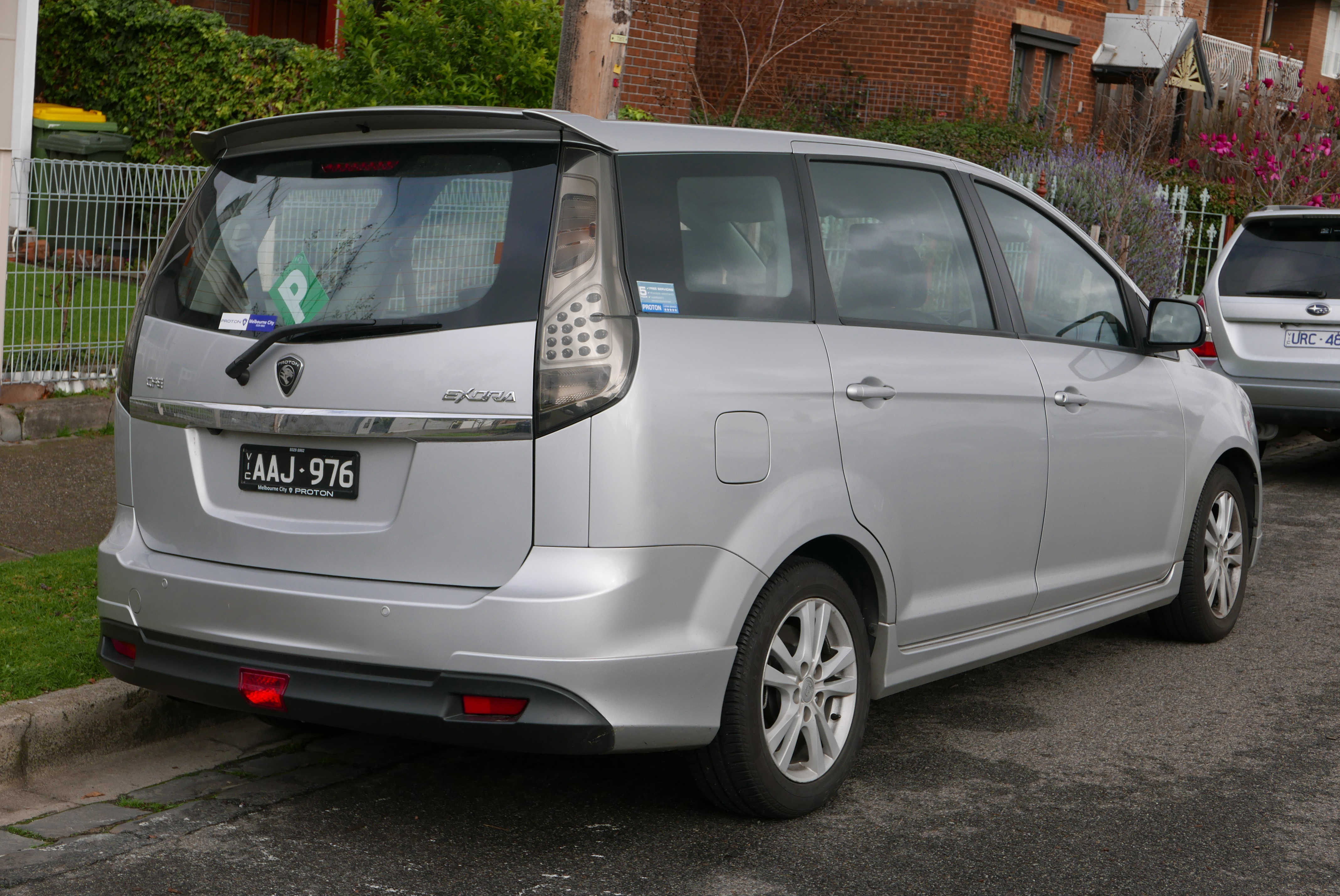 2014 Proton Exora (FZ) GXR van. Photographed in Thornbury, Victoria, Australia. Vehicle registration enquiry resultsJurisdictionVictoriaRegistrationAAJ976Chassis codePL1FZ6YDREF131657Engine codeS4PHTY2212Compliance date2014-03Year of manufacture2014